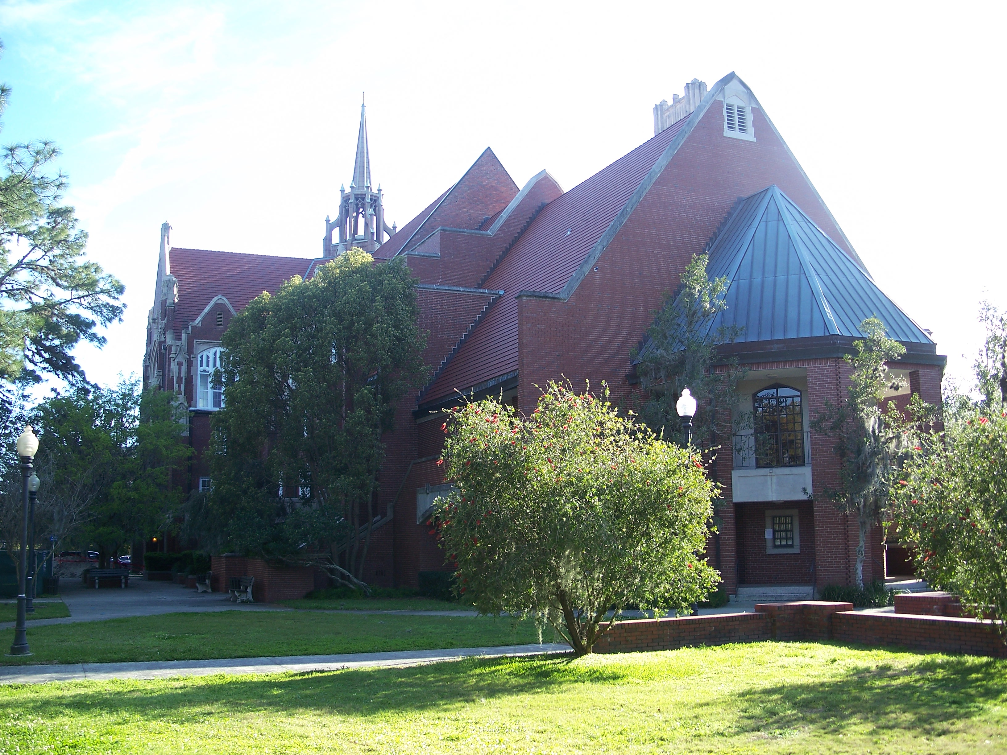 University Auditorium, part of the University of Florida Campus Historic District